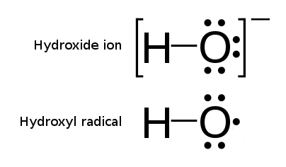 Comparison of a Hydroxide ion and Hydroxyl radical.